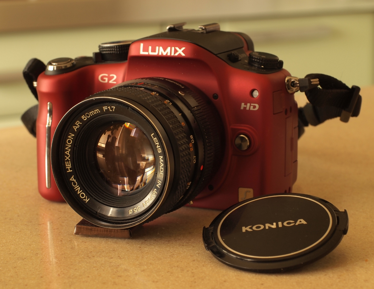 made with Olympus E-PL1 + Hexanon 40/1.8